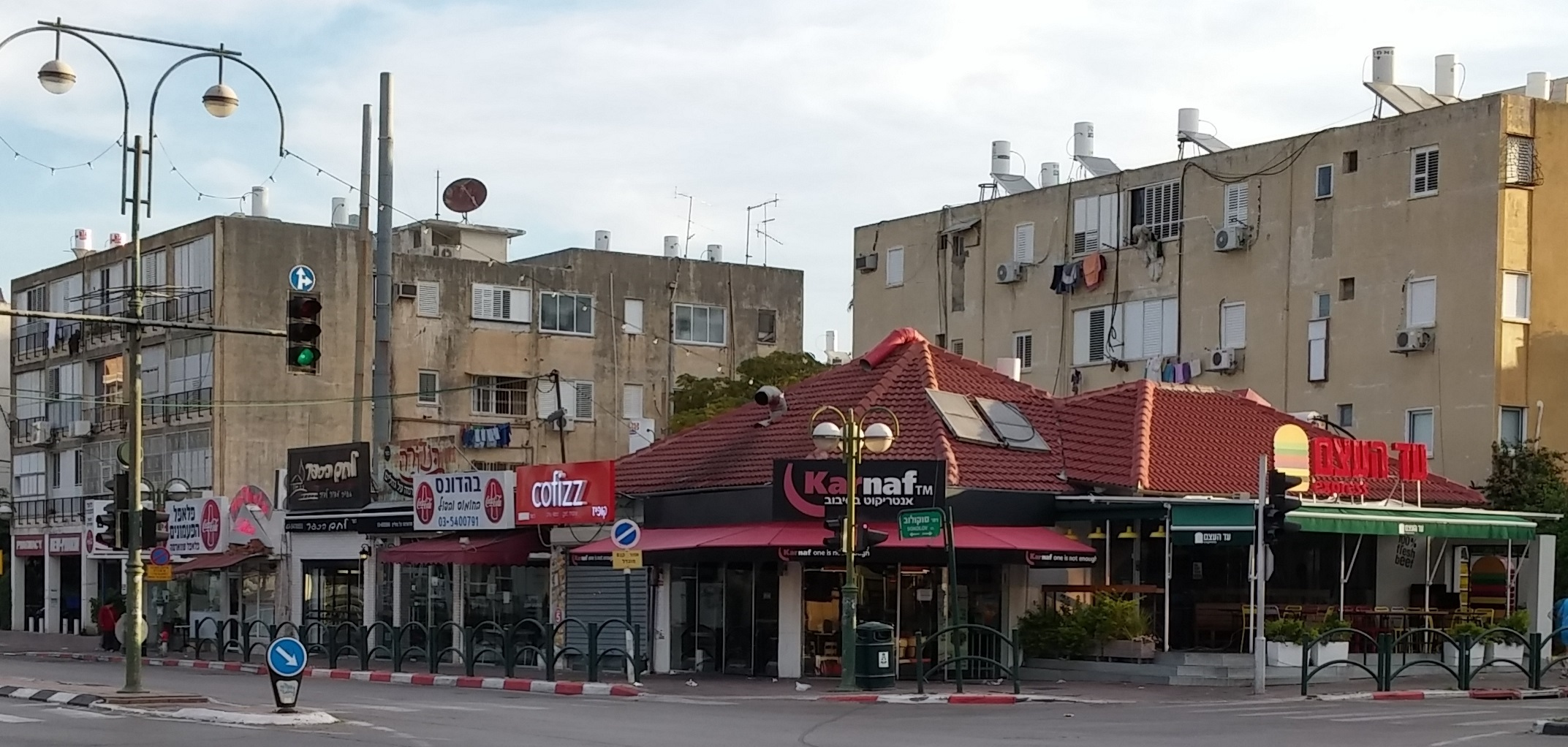 fastfood stores in Ramat Hasharon